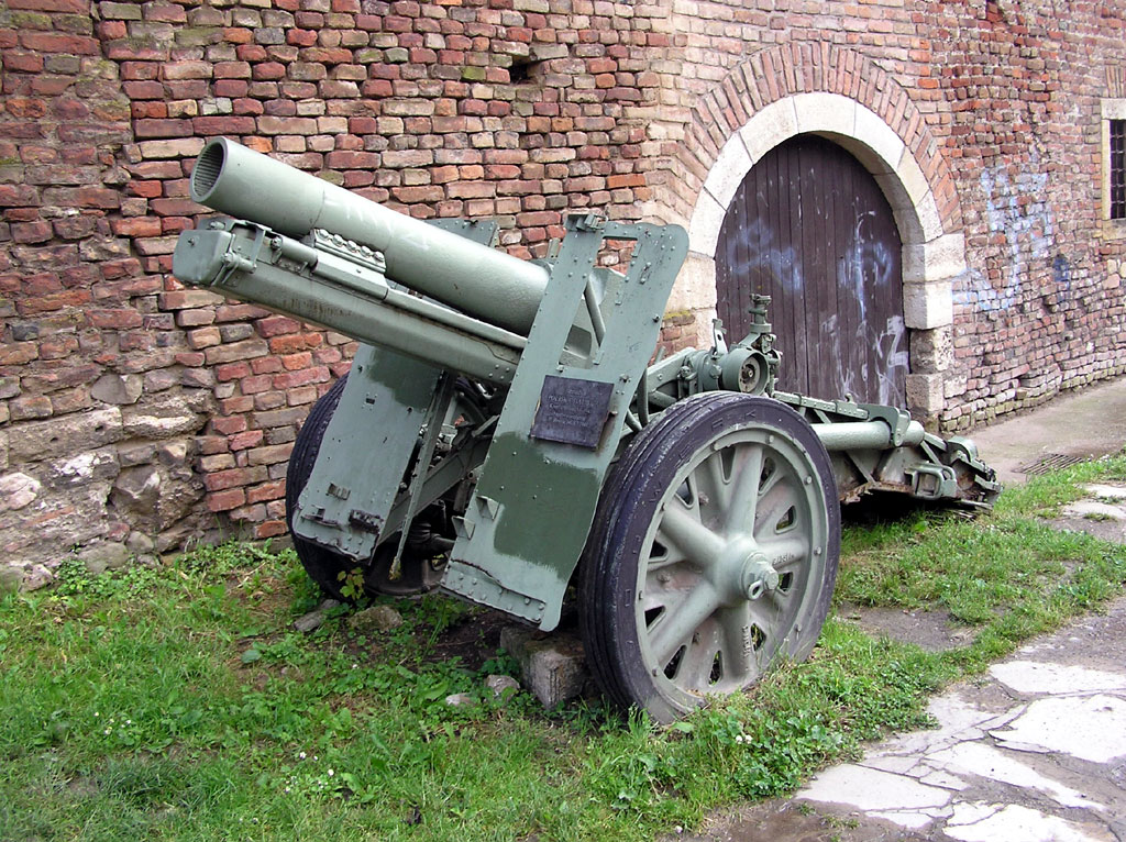 German heavy infantry gun SiG 33, Belgrade Military Museum, Serbia.